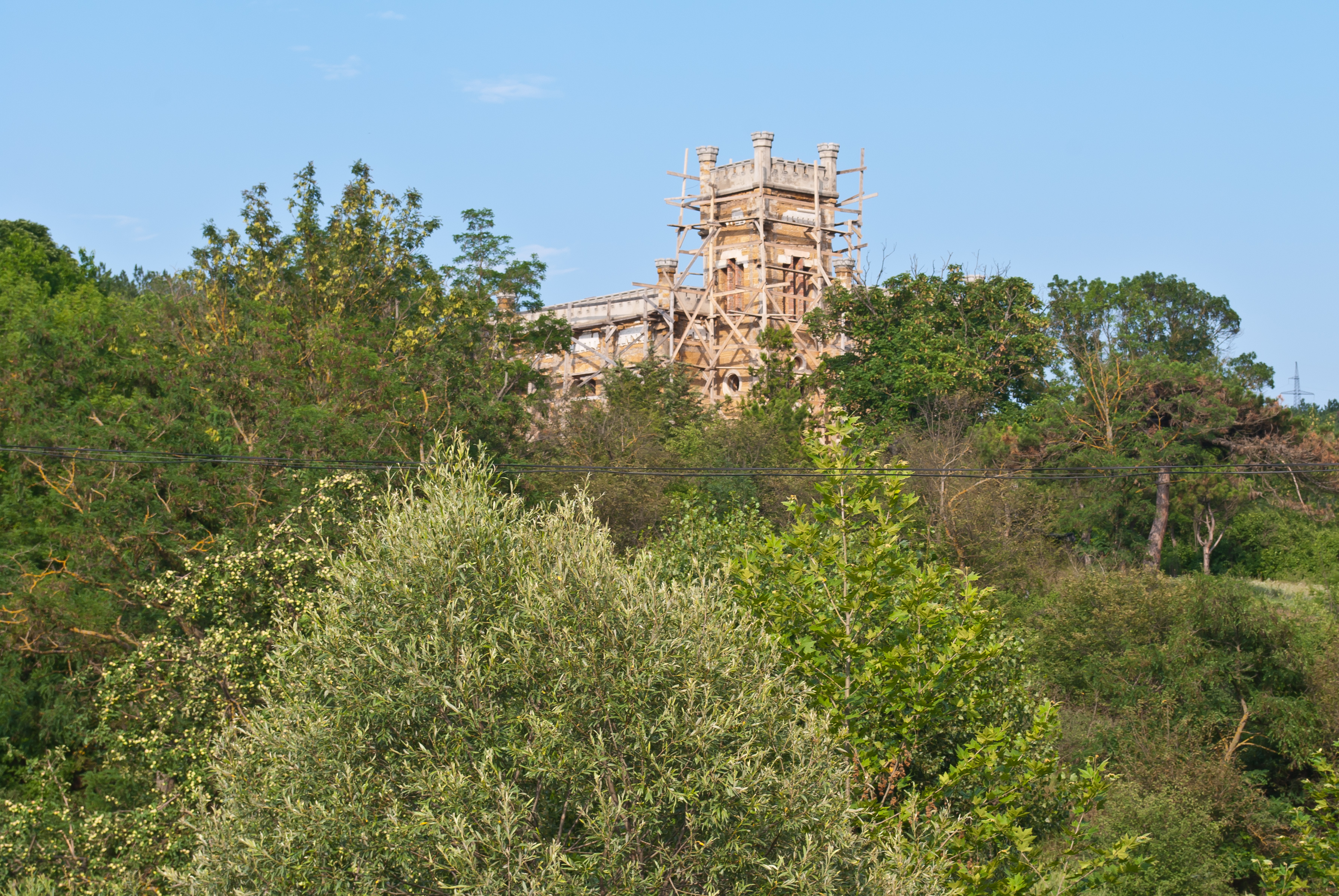 The ruins of "Kessler's house" in the village Fersmanovo (Simferopol district, Crimea).